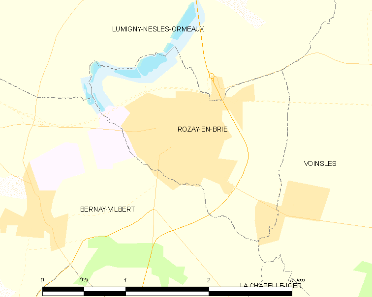 Map of French municipality Rozay-en-Brie